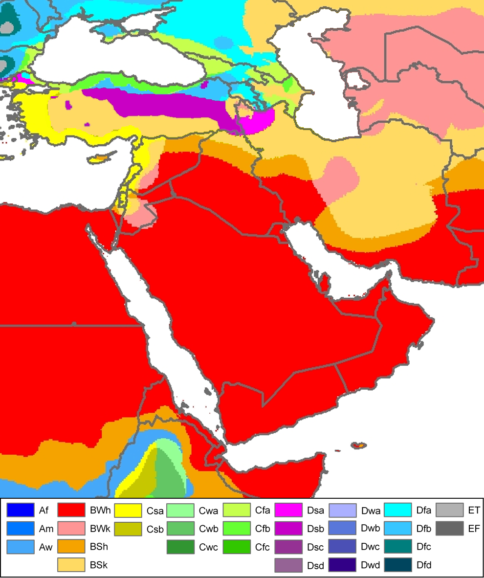 Climate map of (South)west-Asia and adjacent areas (from the "Updated world map of the Köppen-Geiger climate classification").